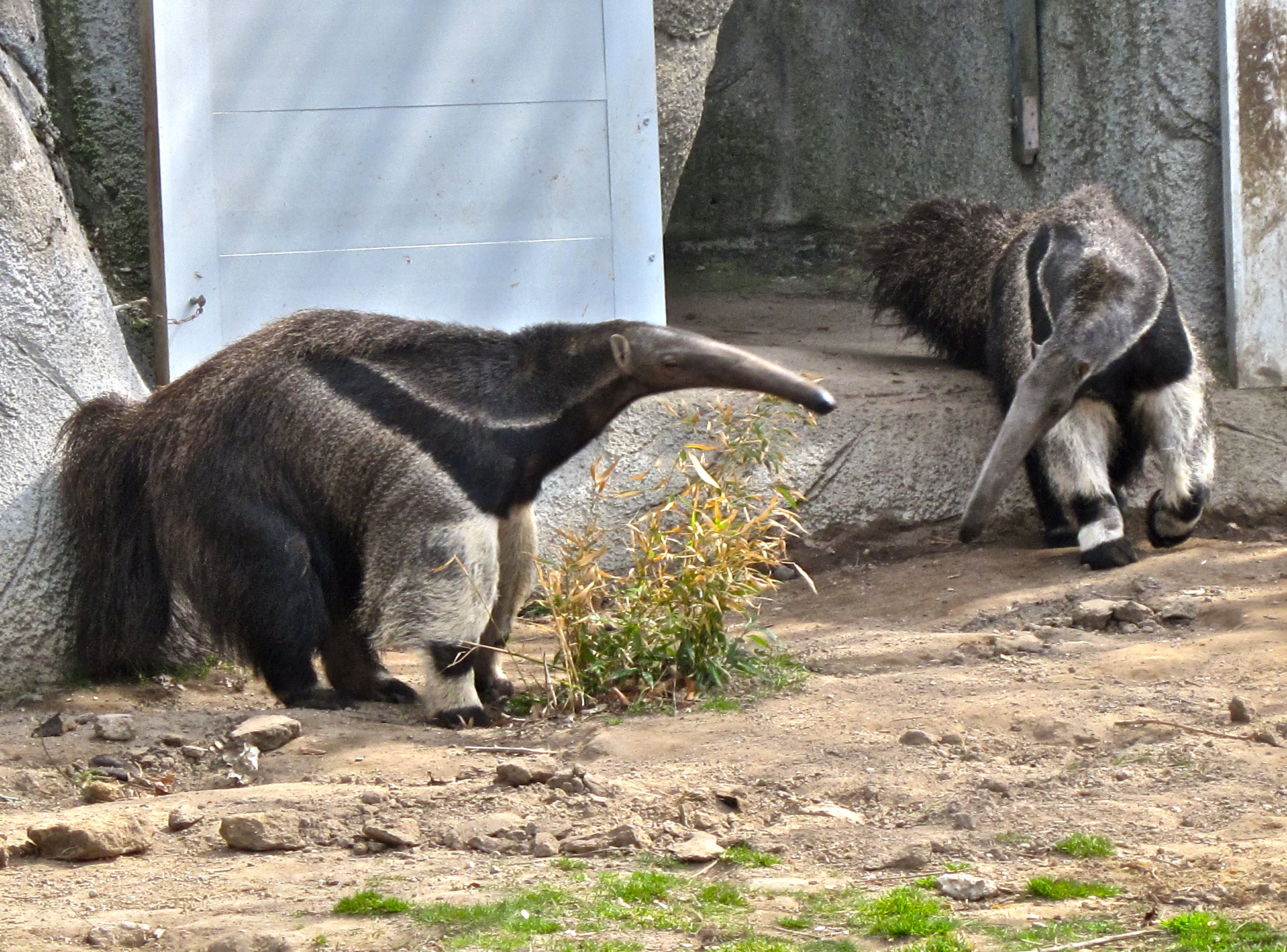 A Giant Anteaters at Detroit Zoo, USA.